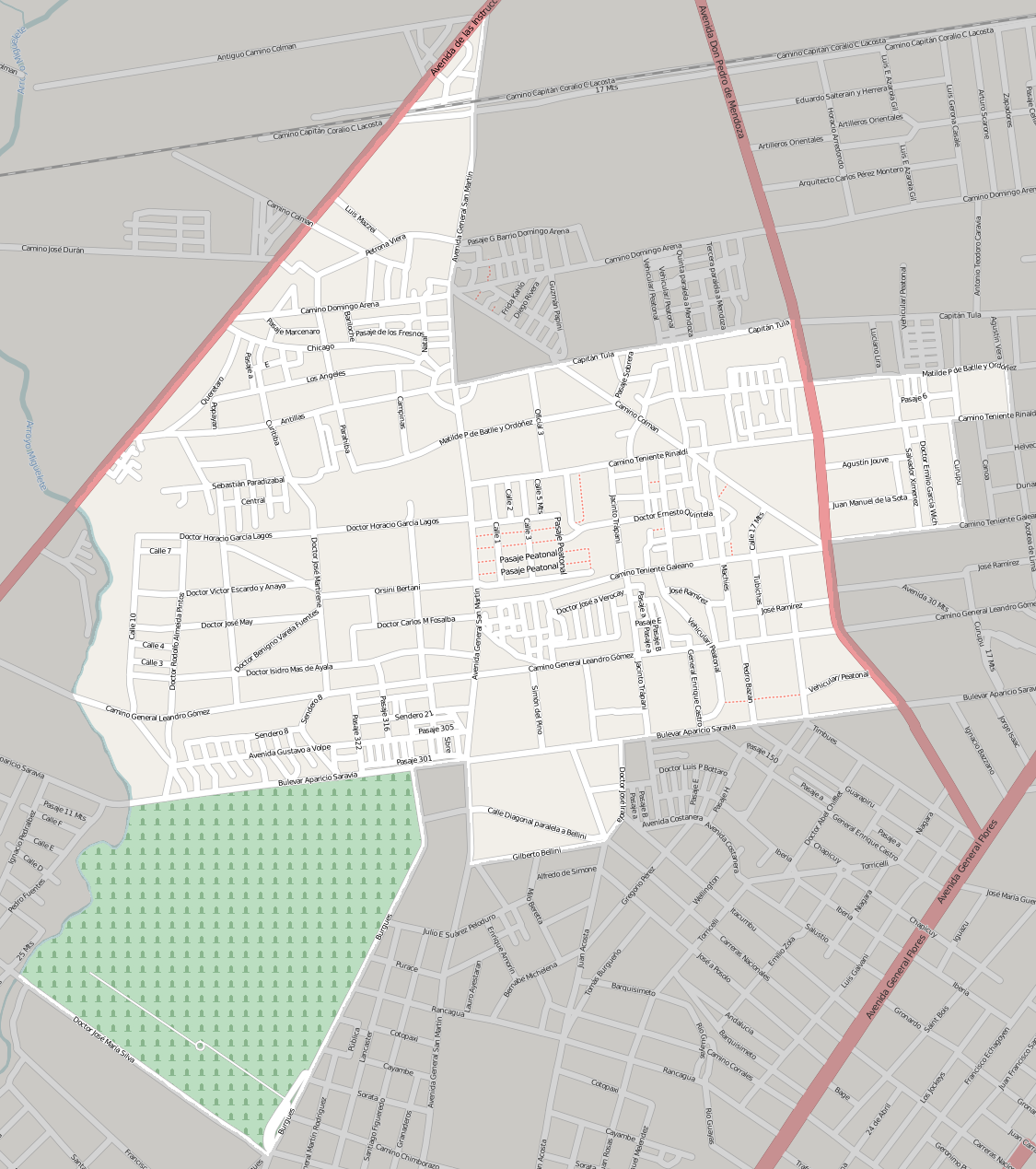 Street map of Casavalle, Montevideo, exported from OpenStreetMap. I added shading to delimit the barrio. This map may be incomplete, and may contain errors. Don't rely solely on it for navigation.